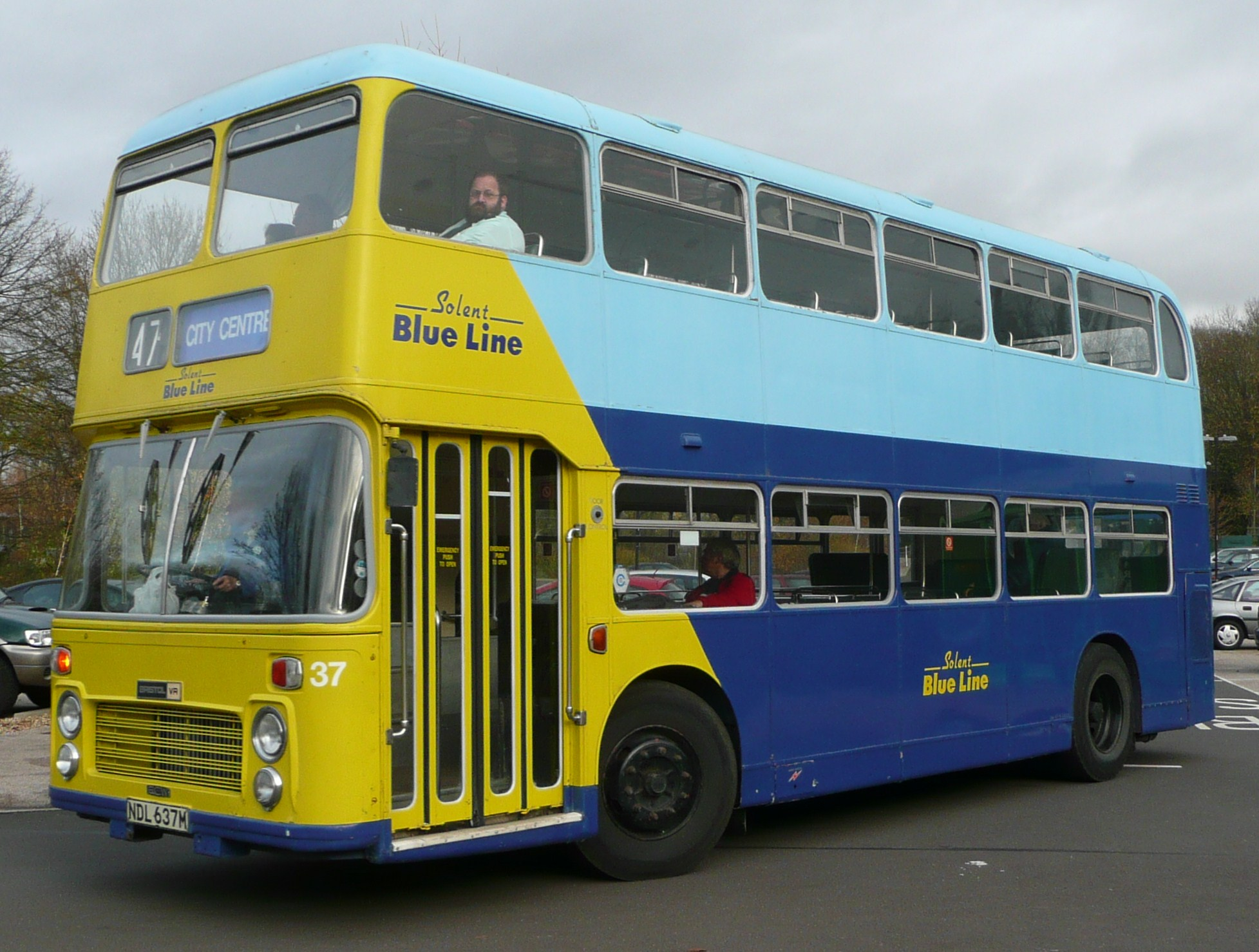 Solent Blue Line' 37 (NDL 637M), a Bristol VR at Winchester St Catherine's park and ride site at the Bluestar 1 event. This was one of the buses new to Southern Vectis but moved to SBL at its inception.